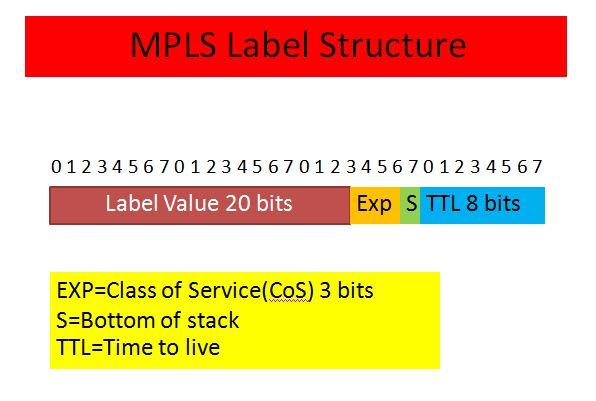 MPLS Label structure